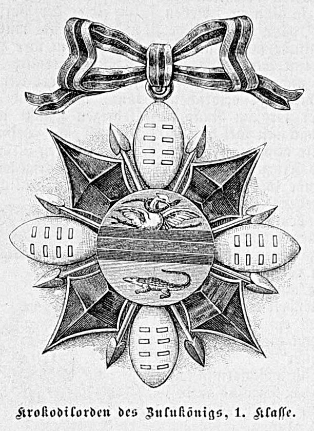 no caption